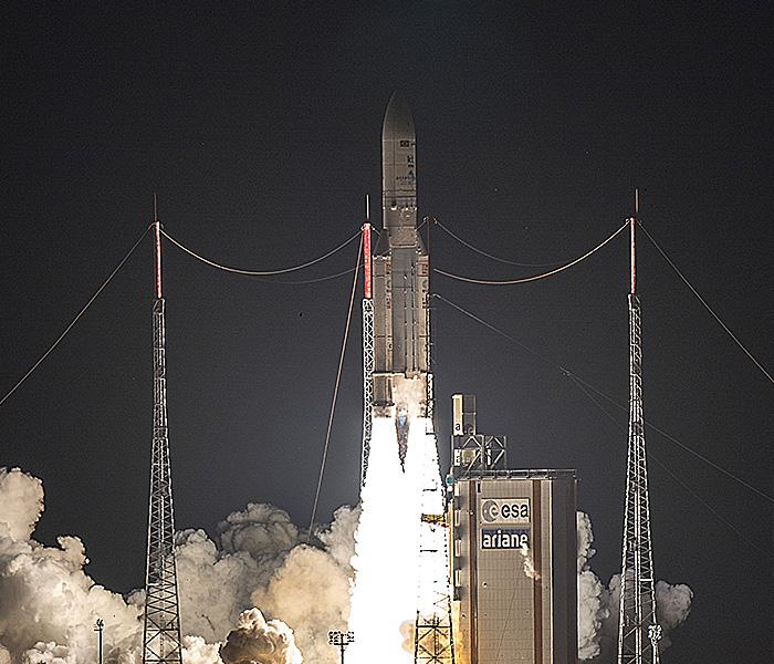 Koreasat 7